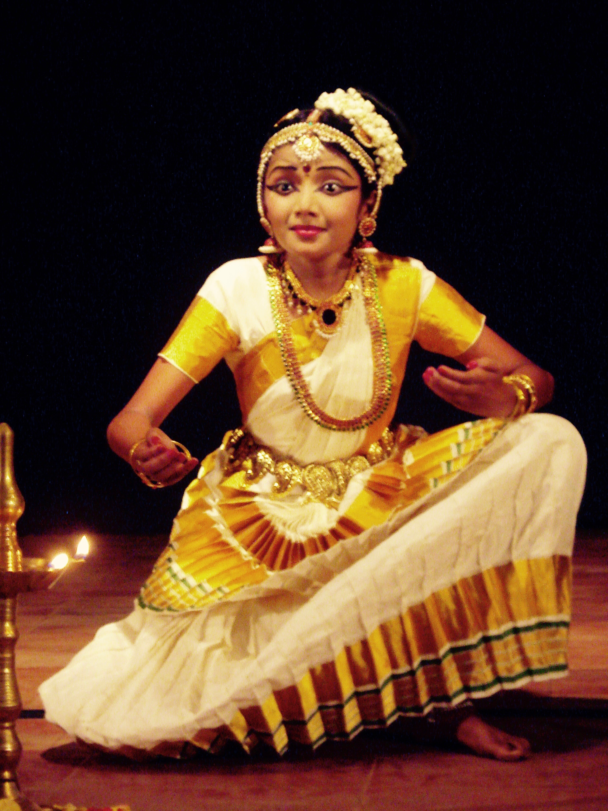 Mohiniyattam by Sandra Pisharody